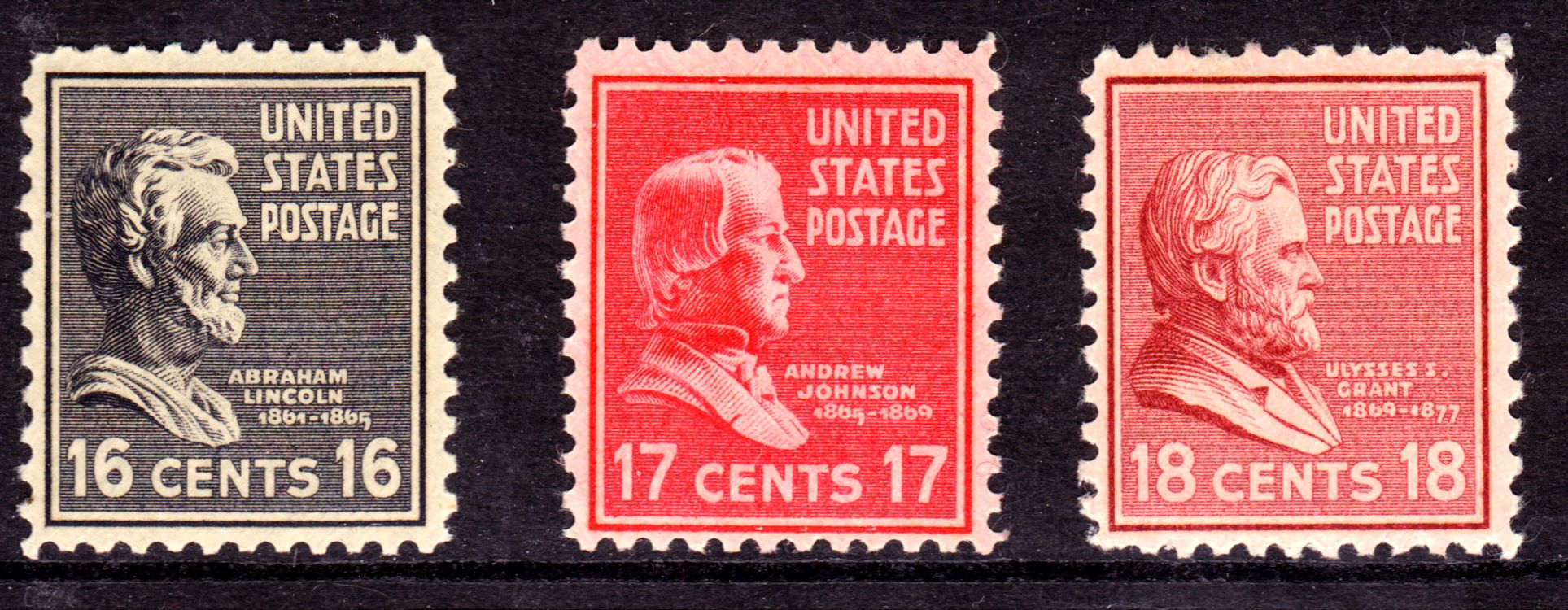 US Postage Stamps of Lincoln, Johnson, Grant, 1938 Issue